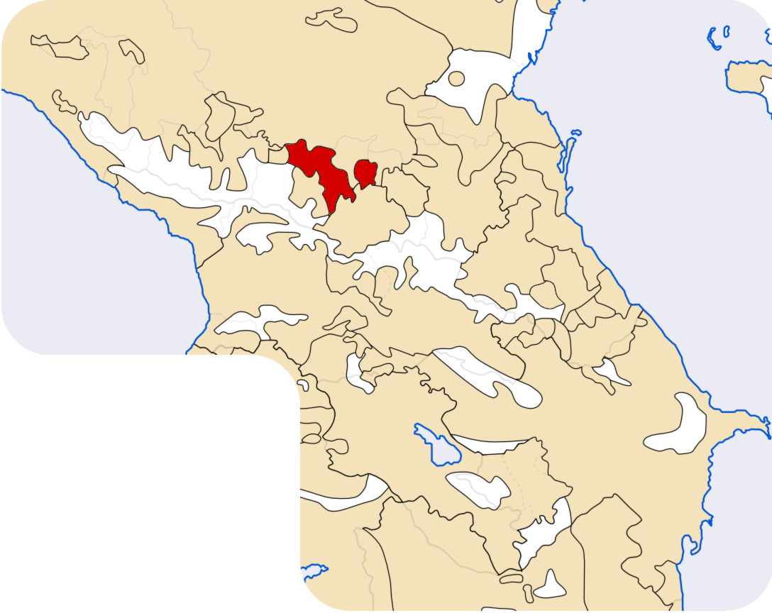 Location map of the Kabardin.